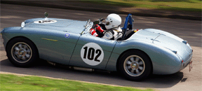 Rick Neves, Austin Healey BN2 #102, Driving in the Pittsburgh Vintage Gran Prix, Shenley Park 2011